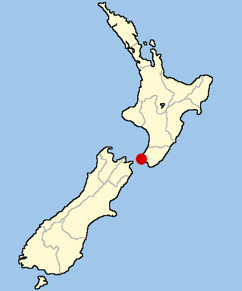 Wellington, New Zealand.